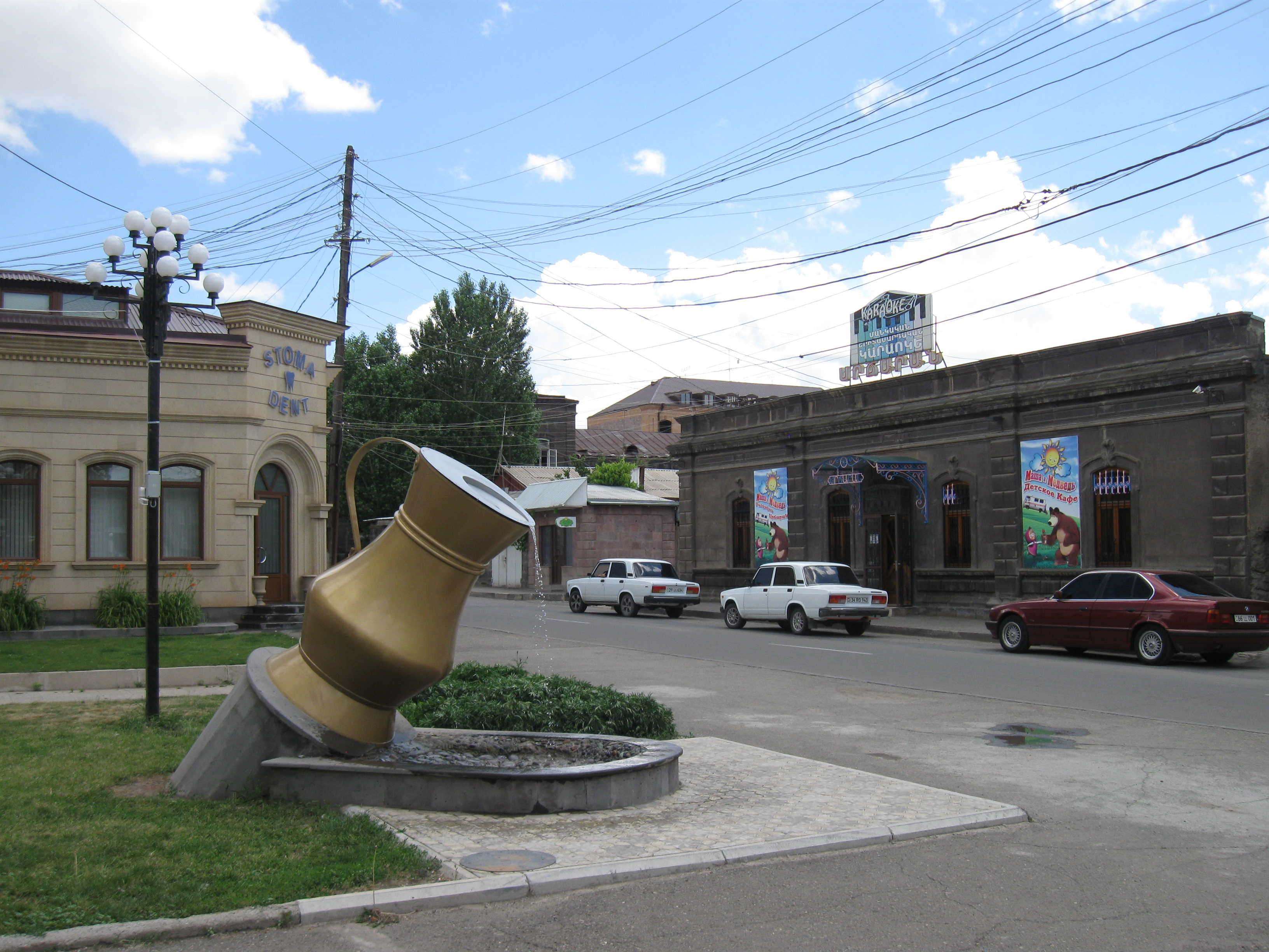 Symbol of Gyumri